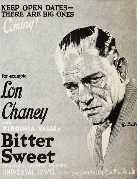 Ad for the American film The Shock (1923) with Lon Chaney, on the inside front cover of the November 18, 1922 Universal Weekly. Bitter Sweet (or Bittersweet) was the working title of the film during production.